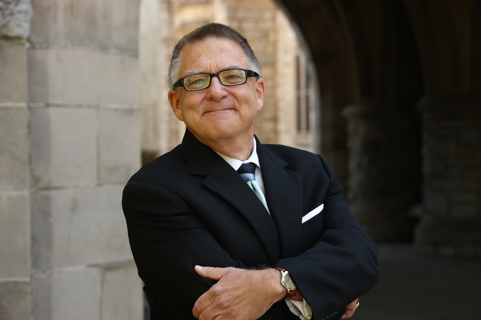 Roger Ekirch, photographed 2012 by Tom Cogill. Ekirch is a Professor of History at Virginia Tech. He's well known as the historian who found out that the sleep pattern of humans before the Industrial Revolution and before electric lighting were mostly biphasic: The first sleep ended around midnight and led into an hour or two of leisure, sexual activity, reflection on dreams etc. The term "first sleep" used to be common and is now long forgotten. It appears in diaries, legal documents and high literature such as cervantes' don quijote. Ekirchs best known publication about this subject is "At Day's Close: A History of Nighttime".